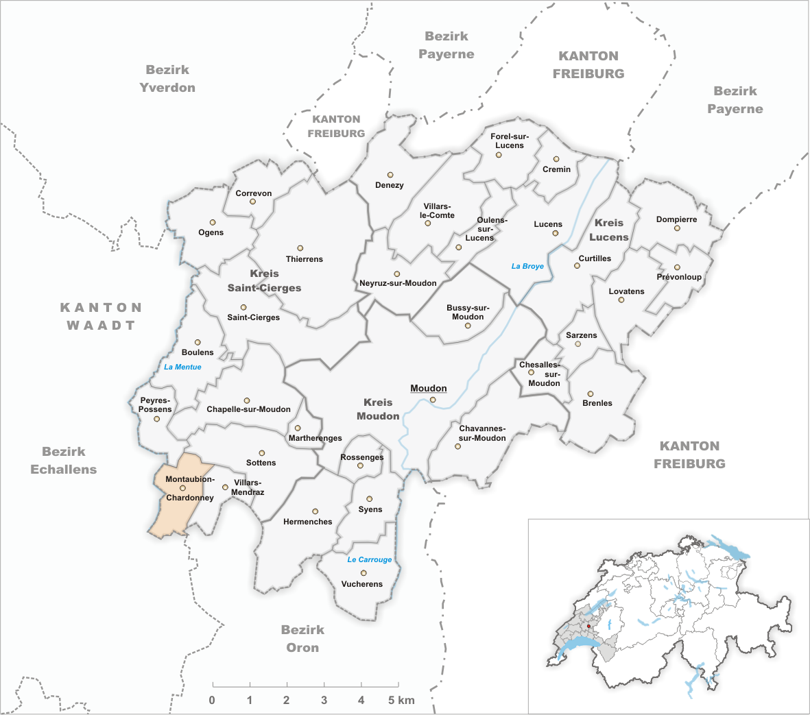 Municipality Montaubion-Chardonney